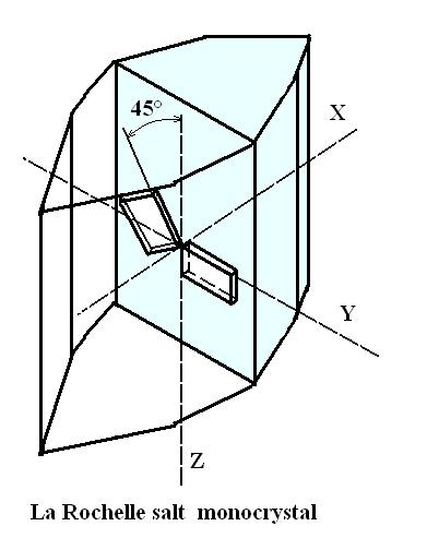 Rochelle salt.